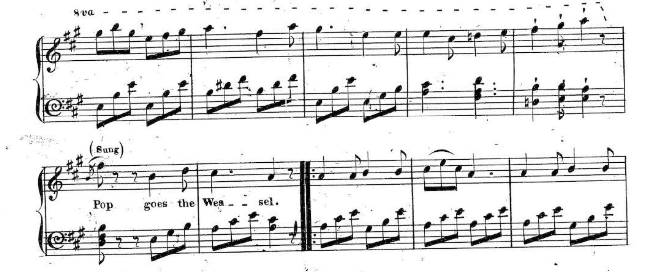 Excerpt from sheet music for "Pop Goes The Weasel" (Porter, 1853)